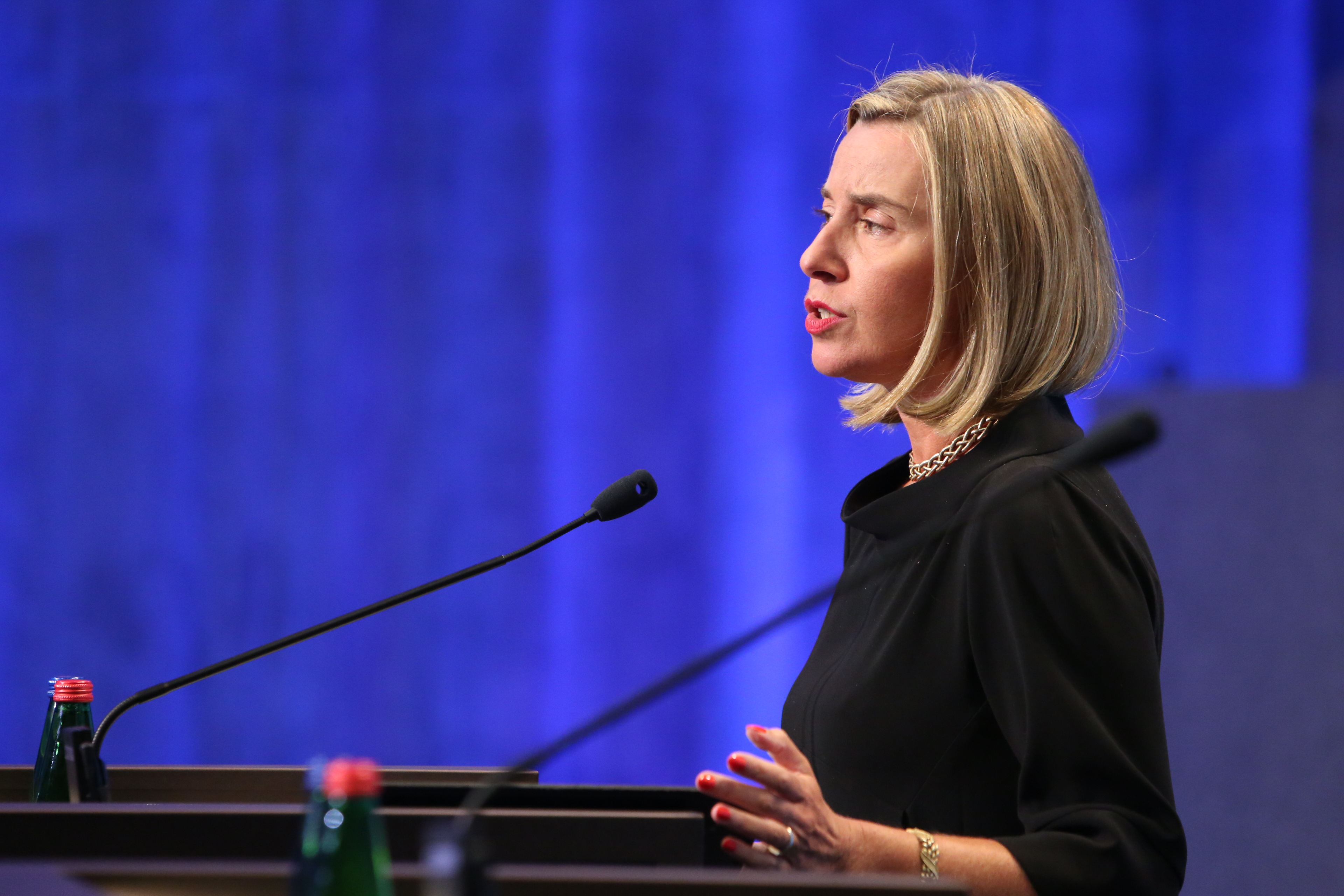 Federica Mogherini